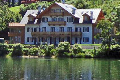 Villa Rebenburg, Grundlsee, Austria